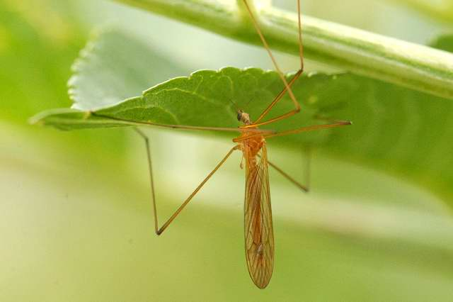 Phylidorea ferruginea from Commanster, Belgian High Ardennes .